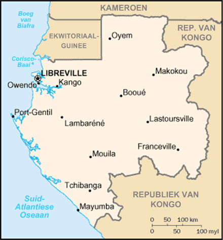 An Afrikaans map of Gabon.